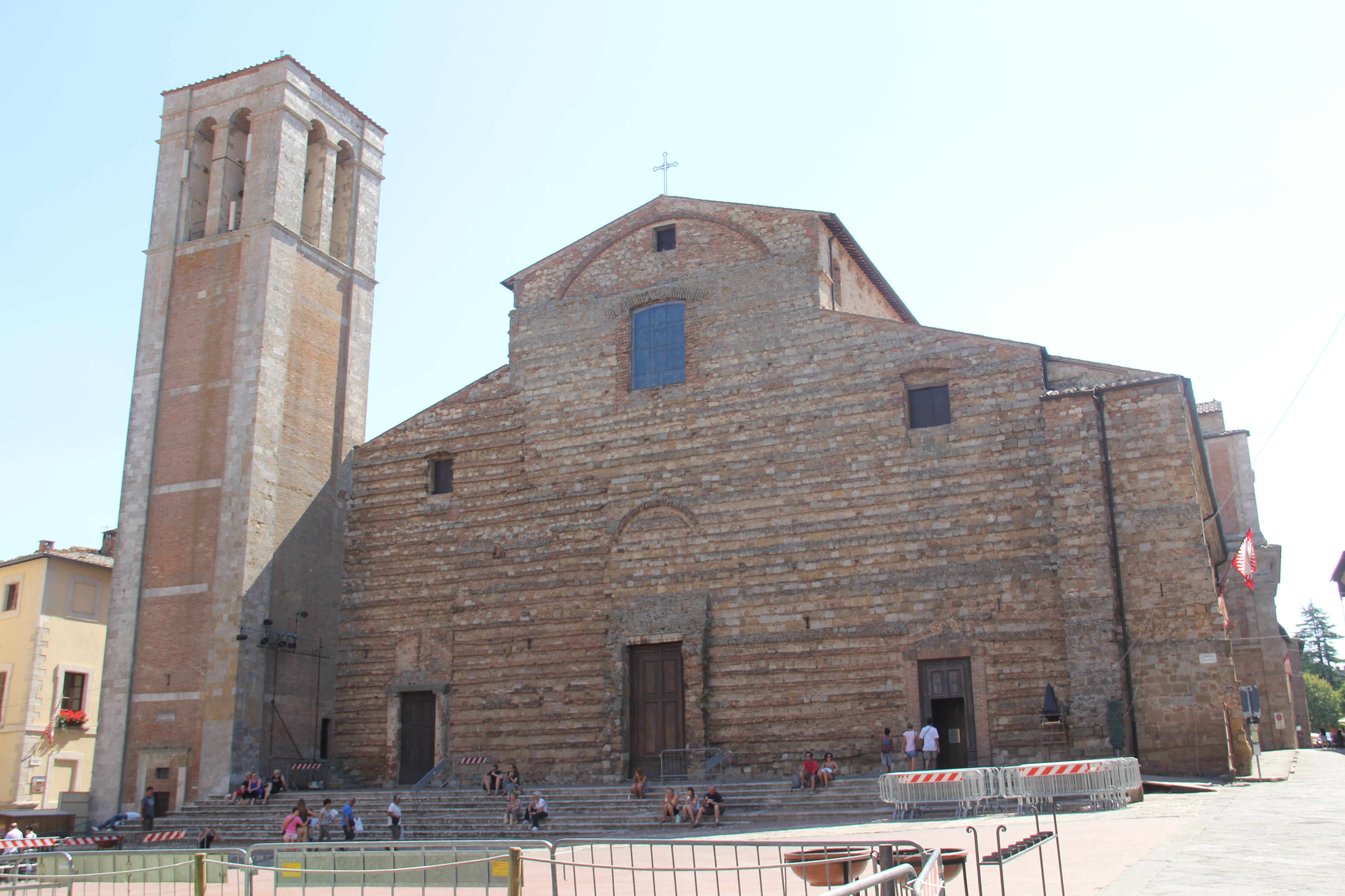 La Cattedrale di Santa Maria Assunta, Montepulciano